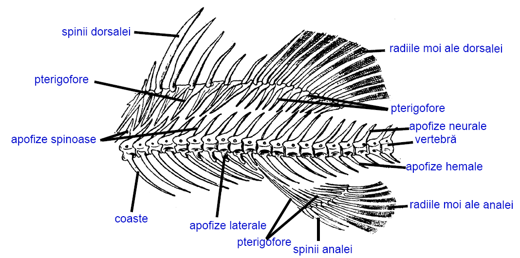 Skeleton of the unpaired fins